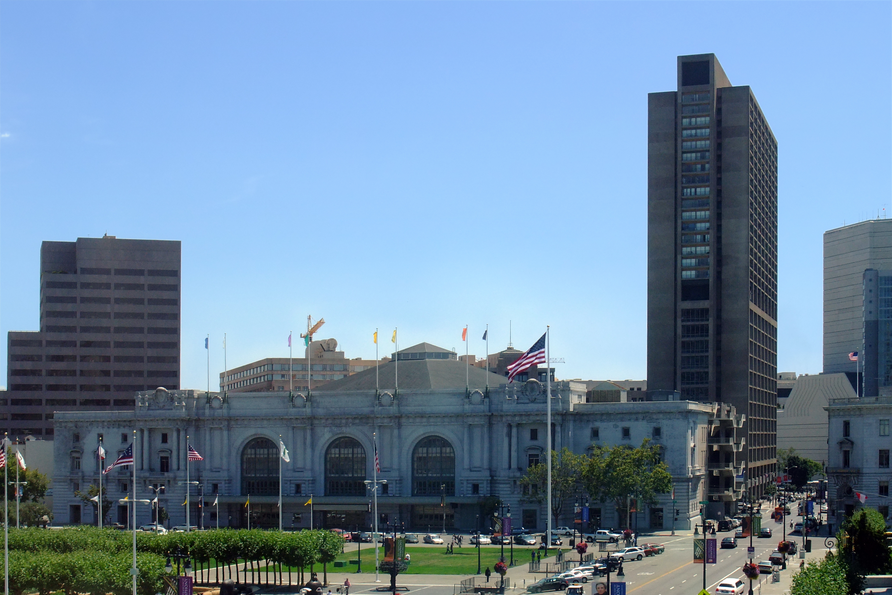 Bill Graham Civic Auditorium, with Fox Plaza in the back. Part of the San Francisco Civic Center.